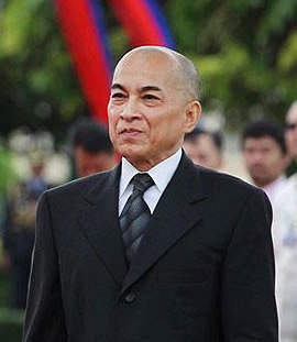 President Rodrigo Roa Duterte is welcomed by the King of Cambodia Norodom Sihamoni upon his arrival at the Royal Palace in Cambodia on December 14, 2016.